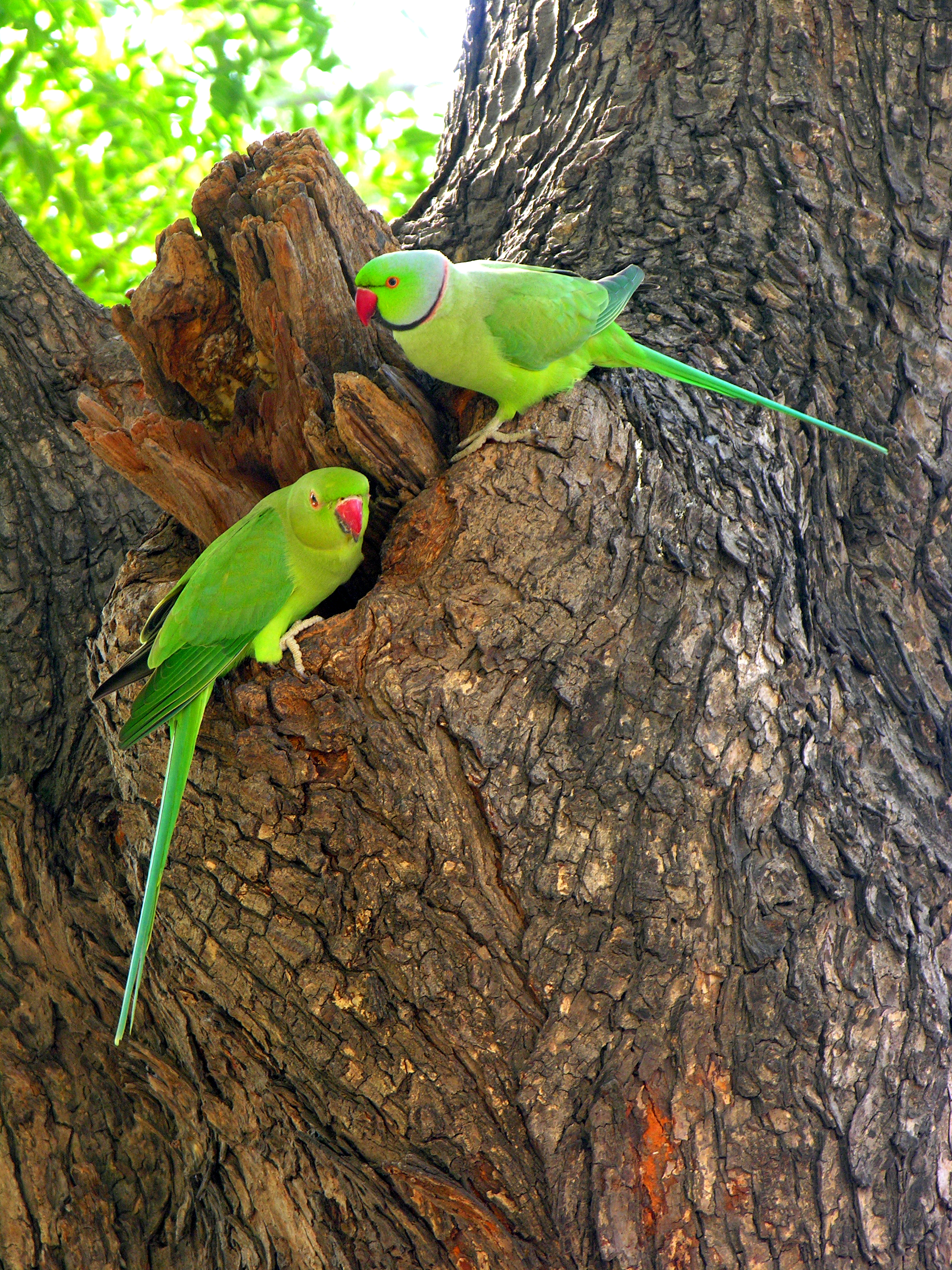 A pair of Rose-ringed Parakeets near Qutab Complex, New Delhi, India.